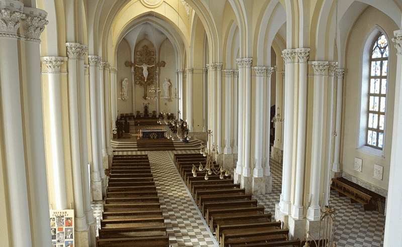 Cathedral of the Immaculate Conception of the Holy Virgin Mary, Moscow.